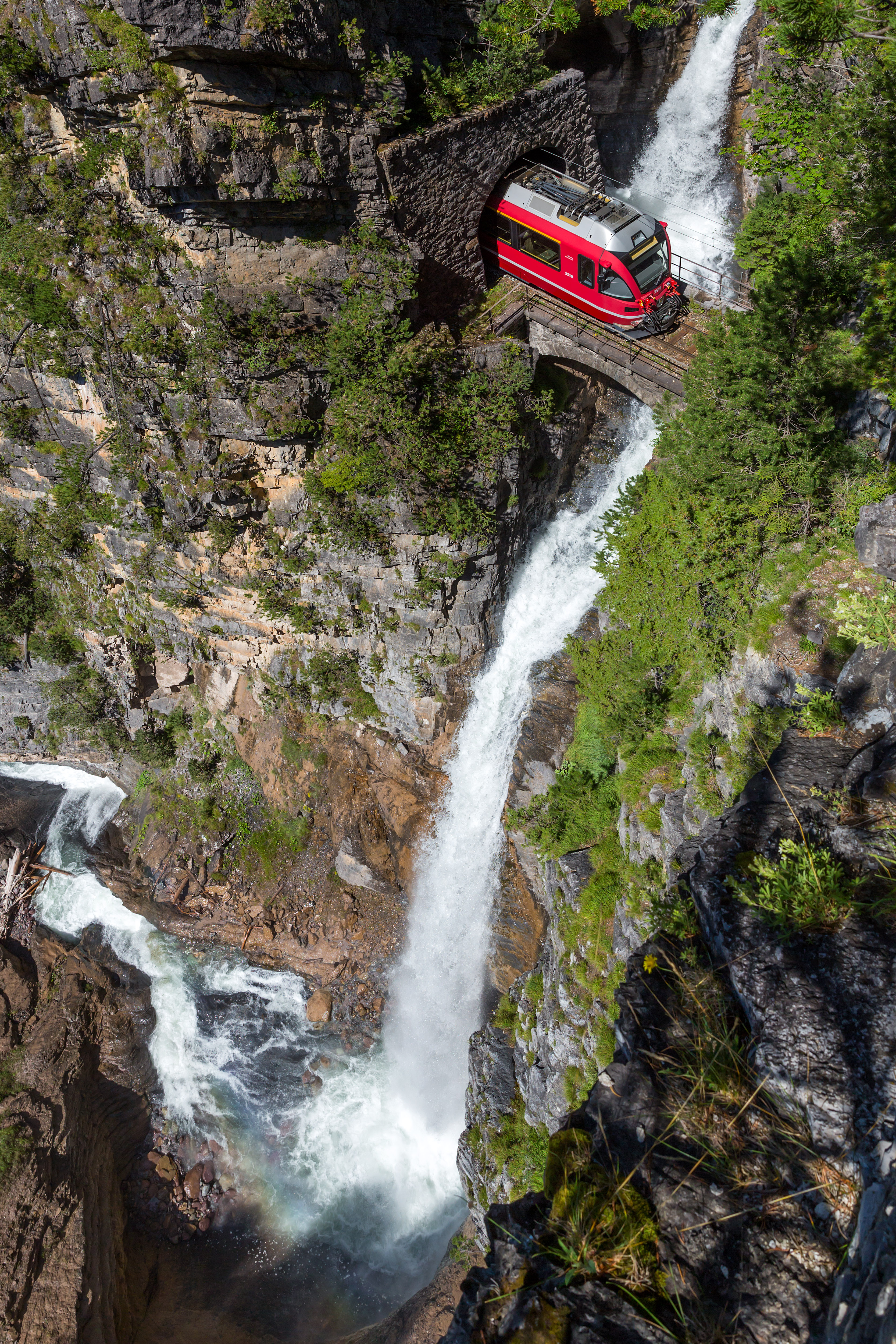 An ABe 8/12 "Allegra" has just left the Wiesen I tunnel and crosses the Bärentritt bridge, and will enter the Bärentritt tunnel right after. Between Davos Wiesen and Davos Monstein, Switzerland.